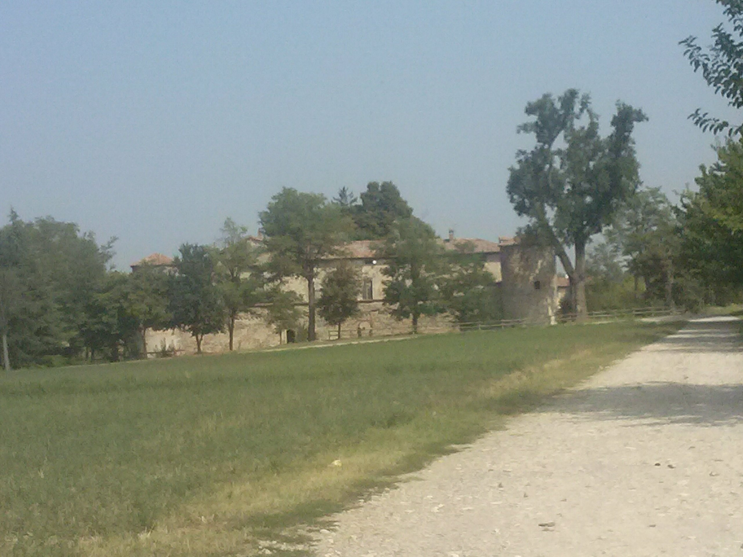 Lisignano Castle, municipality of Gazzola, Piacenza, Italy